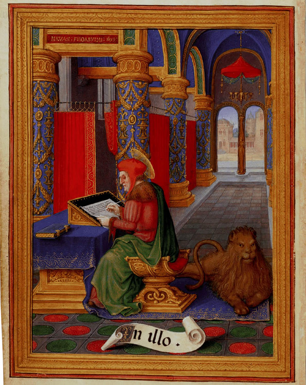 Saint Mark, Sforza Hours